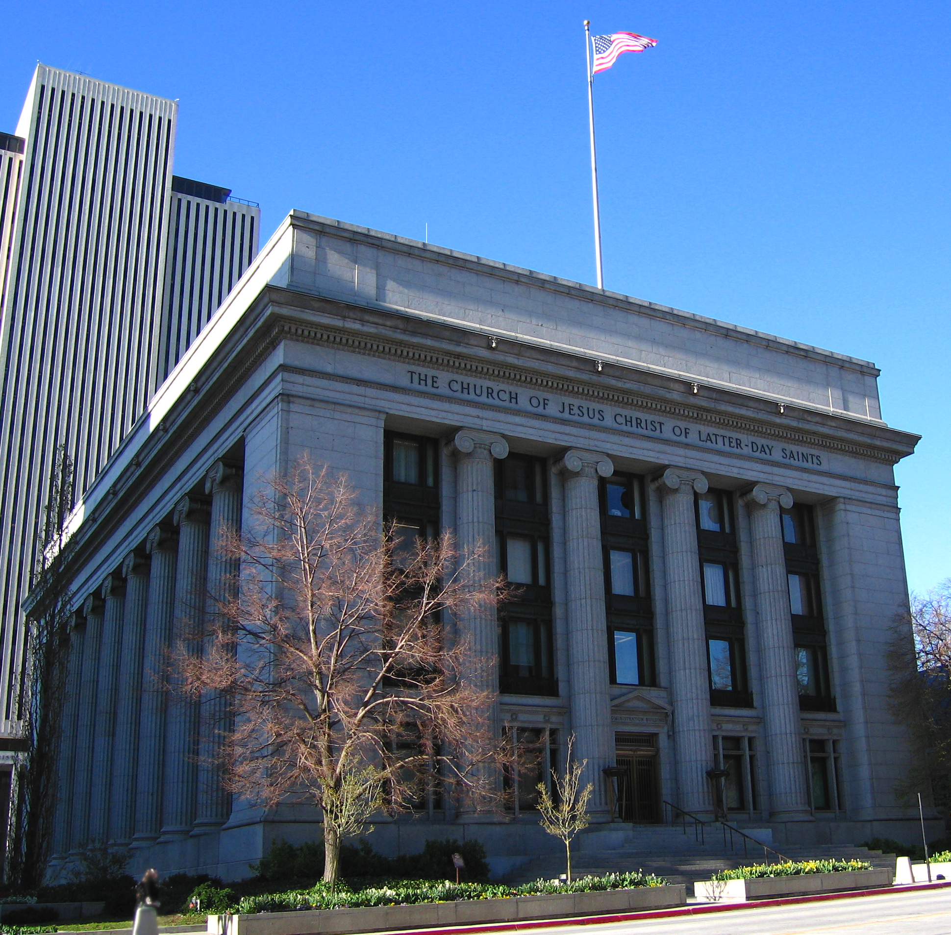 LDS Church Administration Building (LDS Church Office Building in background) Salt Lake City, Utah, The Church of Jesus Christ of Latter-day Saints.